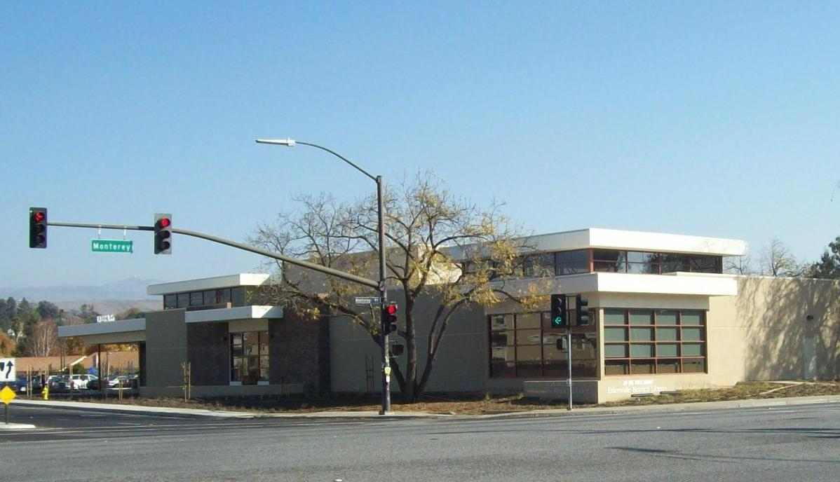 Edenvale Branch of the San Jose Public Library Edenvale branch